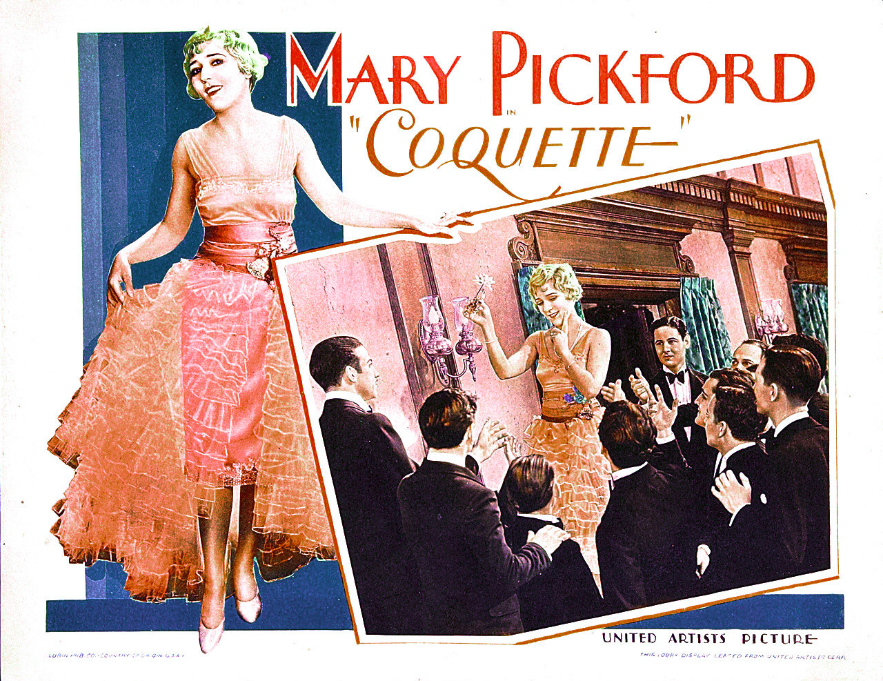 Lobby card for the 1929 film Coquette. The item has no copyright marks as can be seen in the links. At bottom left is Lubin Pub. Co. Country of origin USA. At bottom right is This lobby display leased from United Artists Corp.